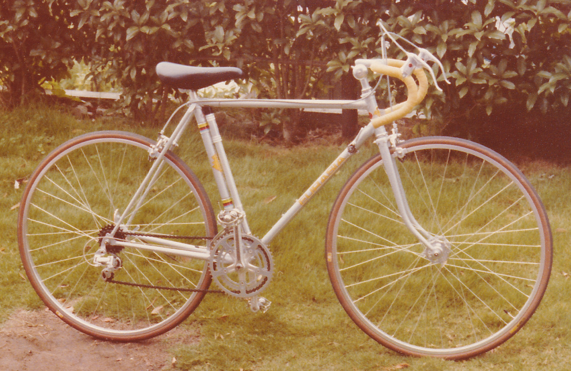 Bridgestone Cycle Eurasia First Riding